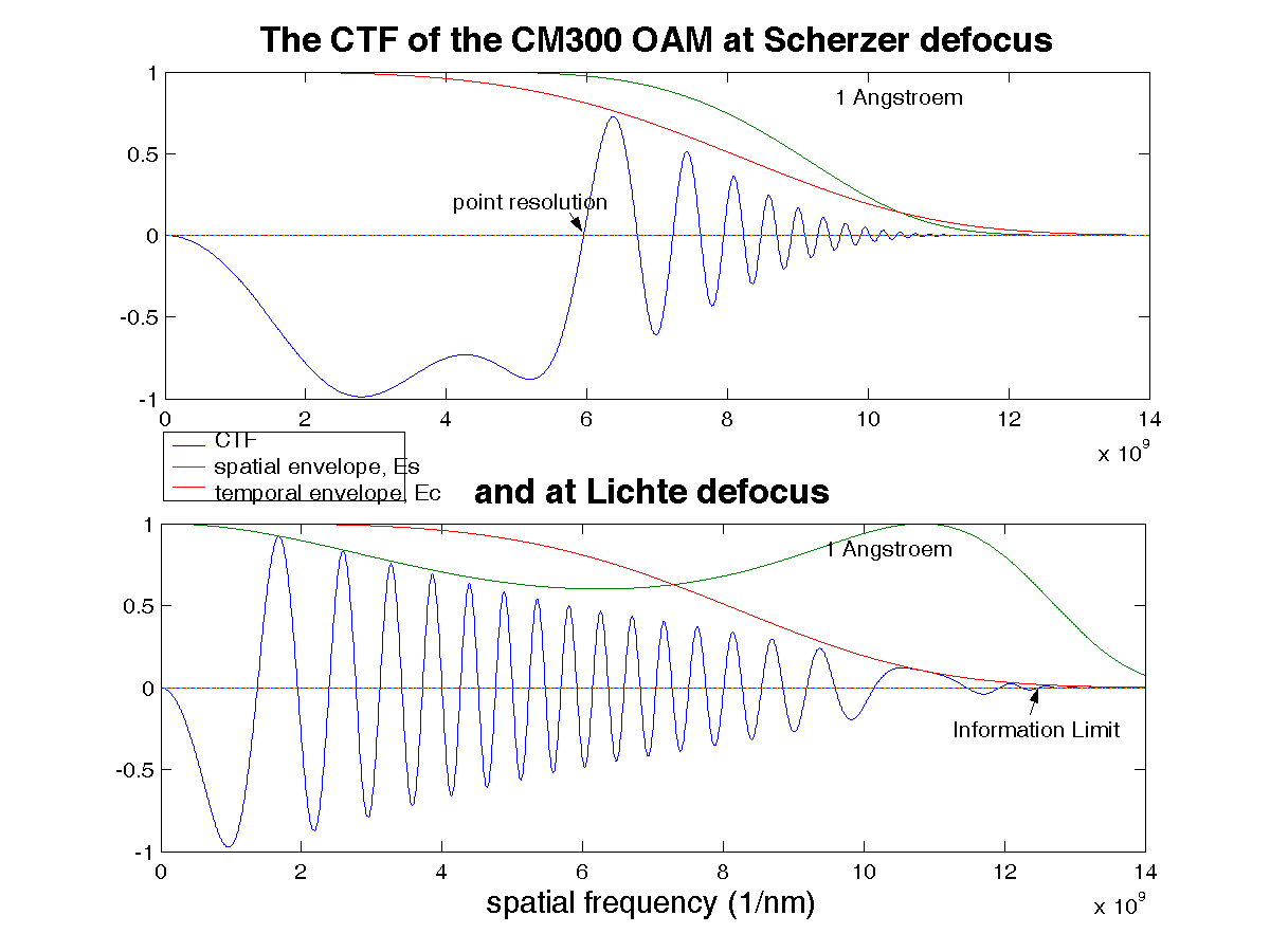 Graph of the CTF of the OAM at NCEM at Scherzer defocus (top) which allows for the biggest point resolution of 1.7 Å and at Lichte defocus (bottom) which maximizes the information limit of the microscope to 0.8 Å. The CTF is dampened by the spatial and temporal incoherency.